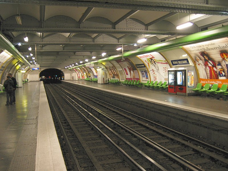 Paris Métro, station École Militaire (line 8)